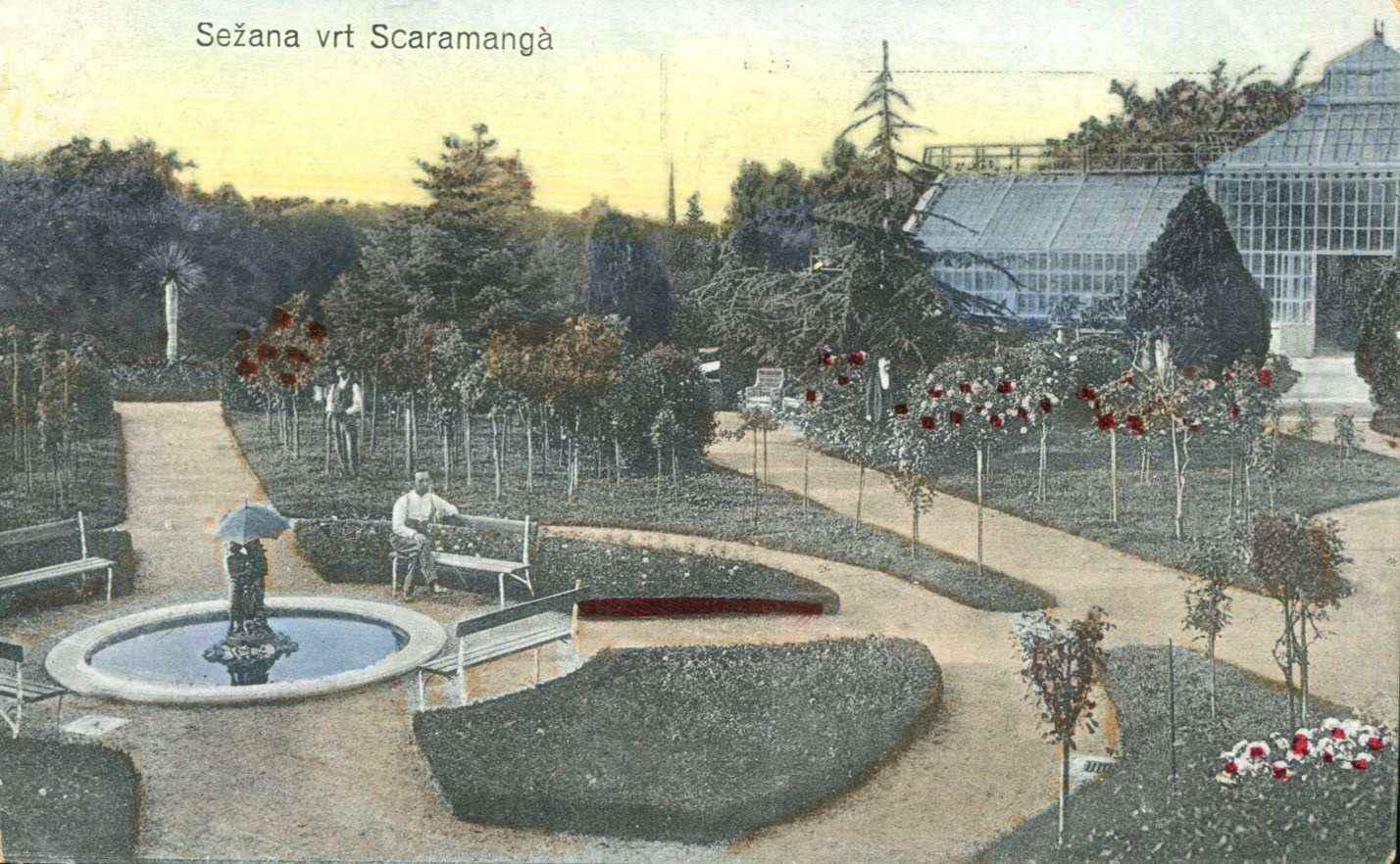 Postcard of Sežana.